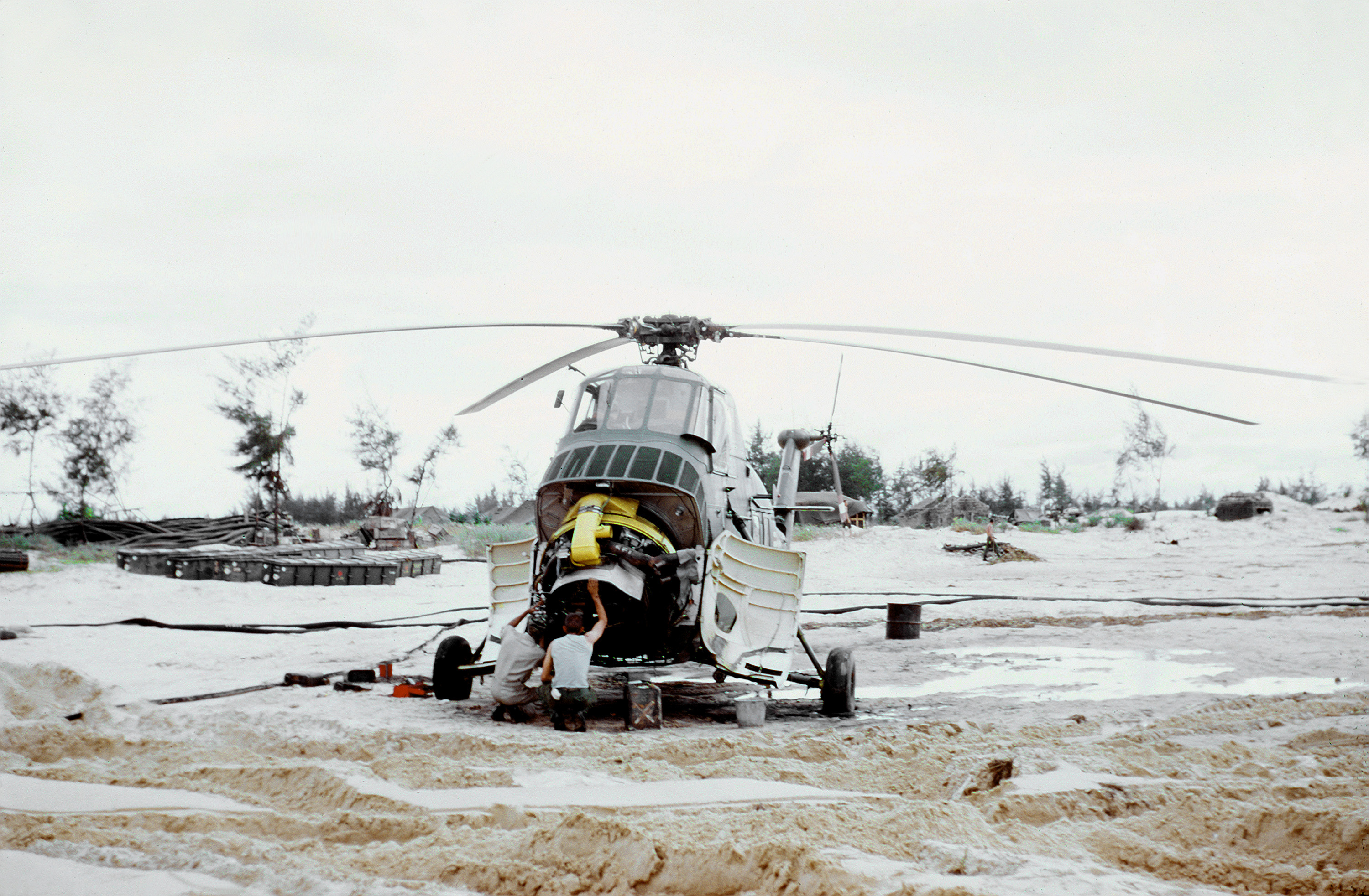 U.S. Marine Corps technicians examine the Wright R-1820 engine of a disabled Sikorsky UH-34D Seahorse helicopter at the NSAD Cua Viet supply center, near Dong Ha (South Vietnam), 1 October 1966.